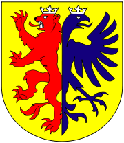 Coat of arms of Category:Kirchberg SG, canton of St. Gallen, Switzerland